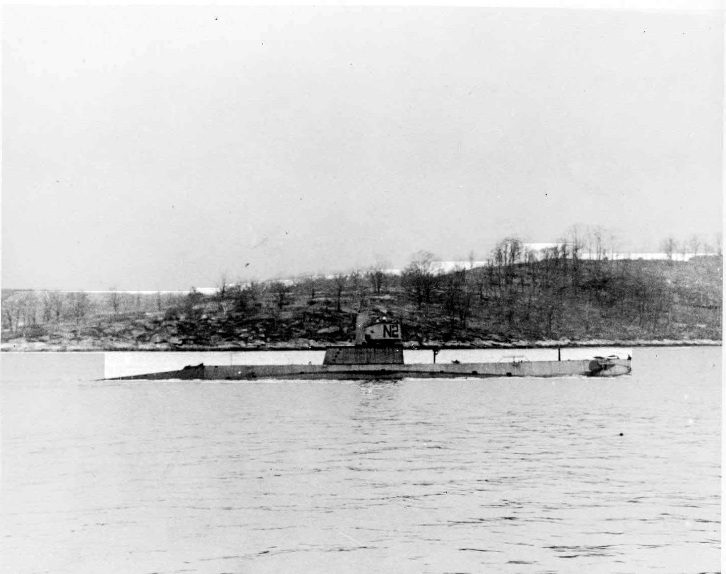 United States Navy submarine in Puget Sound while fitting out, proceeding to sea for sea trials